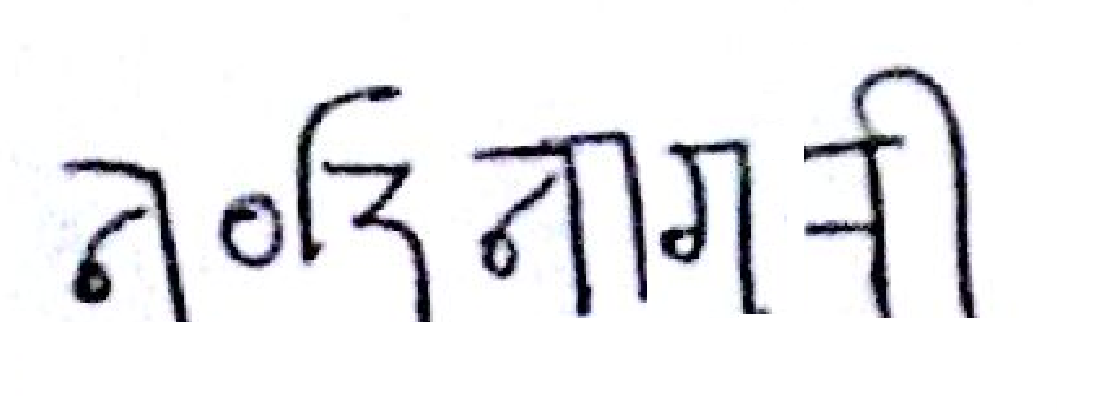 ಇದು ನಂದಿನಾಗರಿ ಲಿಪಿಯ ವರ್ಣಮಾಲೆ. This is chart of Nandinagari script